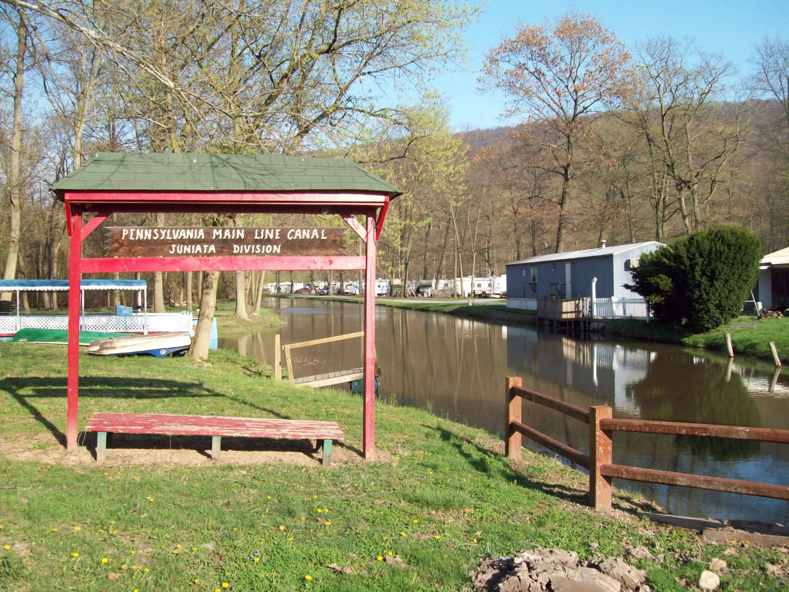 Pennsylvania Main Line Canal, Juniata Division, April 2010